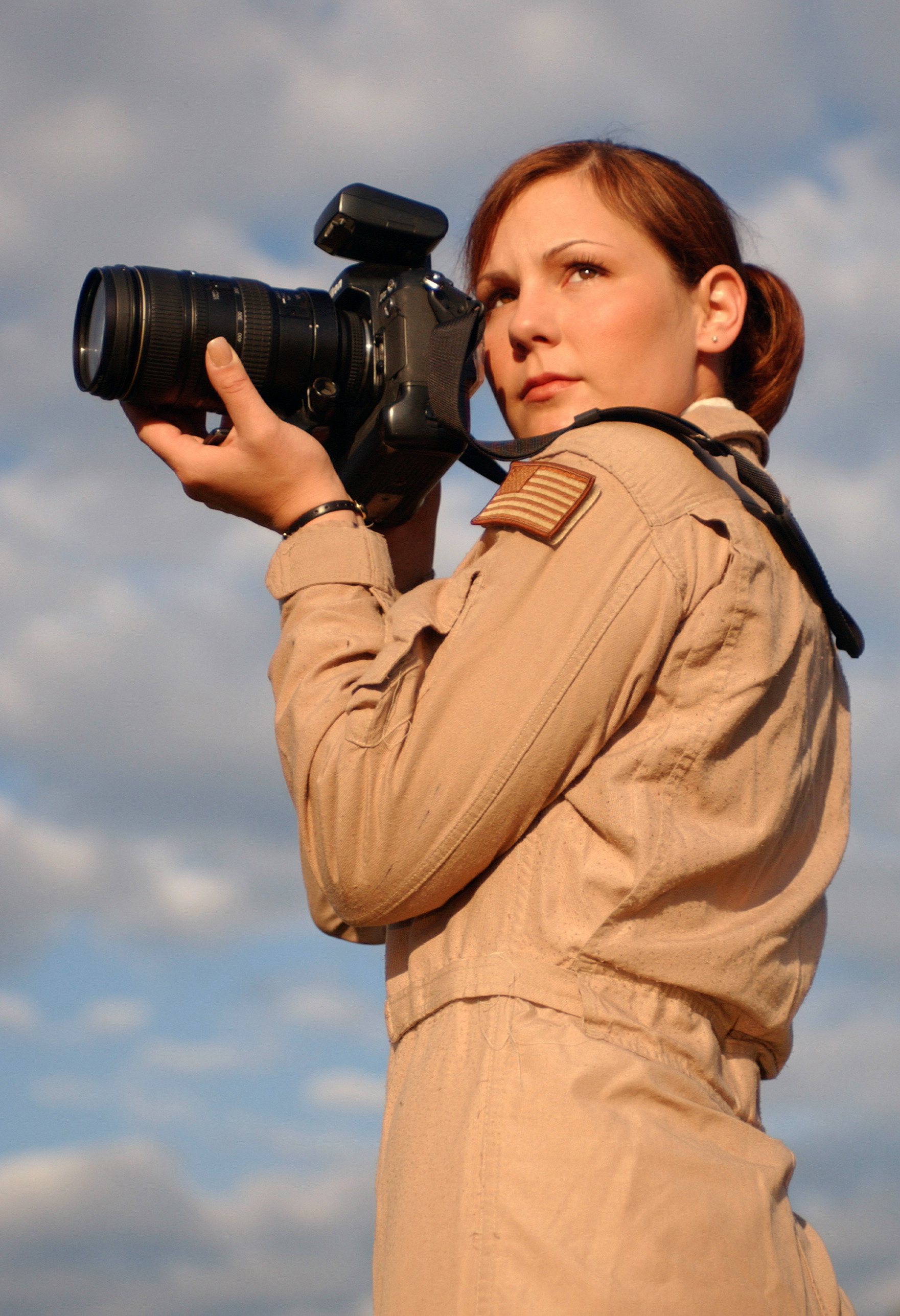 US Air Force (USAF) Staff Sergeant (SSGT) Stacy L. Pearsall, Aerial Photographer, 1st Combat Camera Squadron (CTCS), Charleston Air Force Base (AFB), South Carolina (SC), poses for pictures outside the 1 CTCS building in recognition of her being awarded the 2004 Military Photographer (MILPHOG) of the Year.